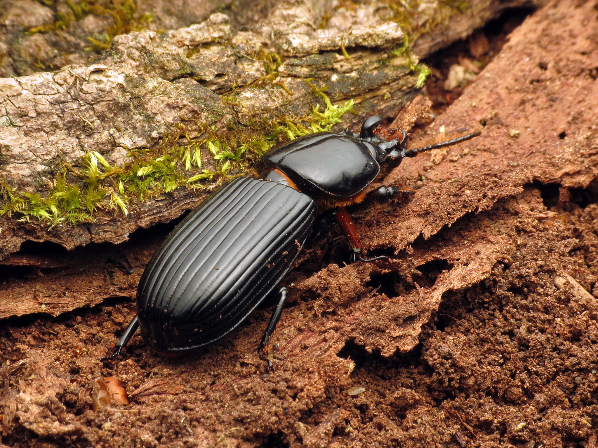 The beetle Odontotaenius disjunctus (Illiger); Passalidae: Passalinae; in Rock Creek Park; Washington, District of Columbia, United States (April 21, 2018).